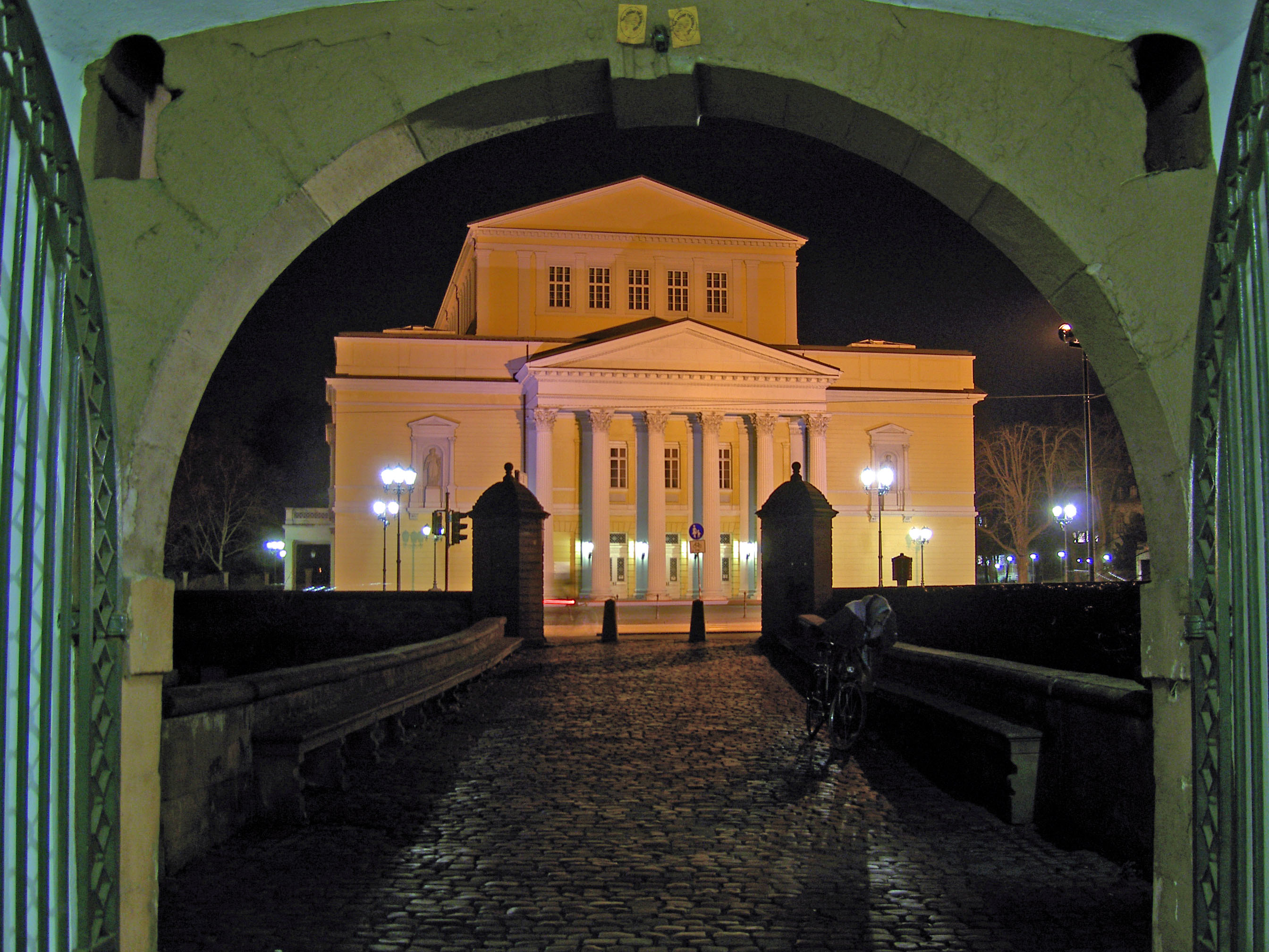 Darmstadt, Hesse, Germany; former Court Theatre, now State Archives